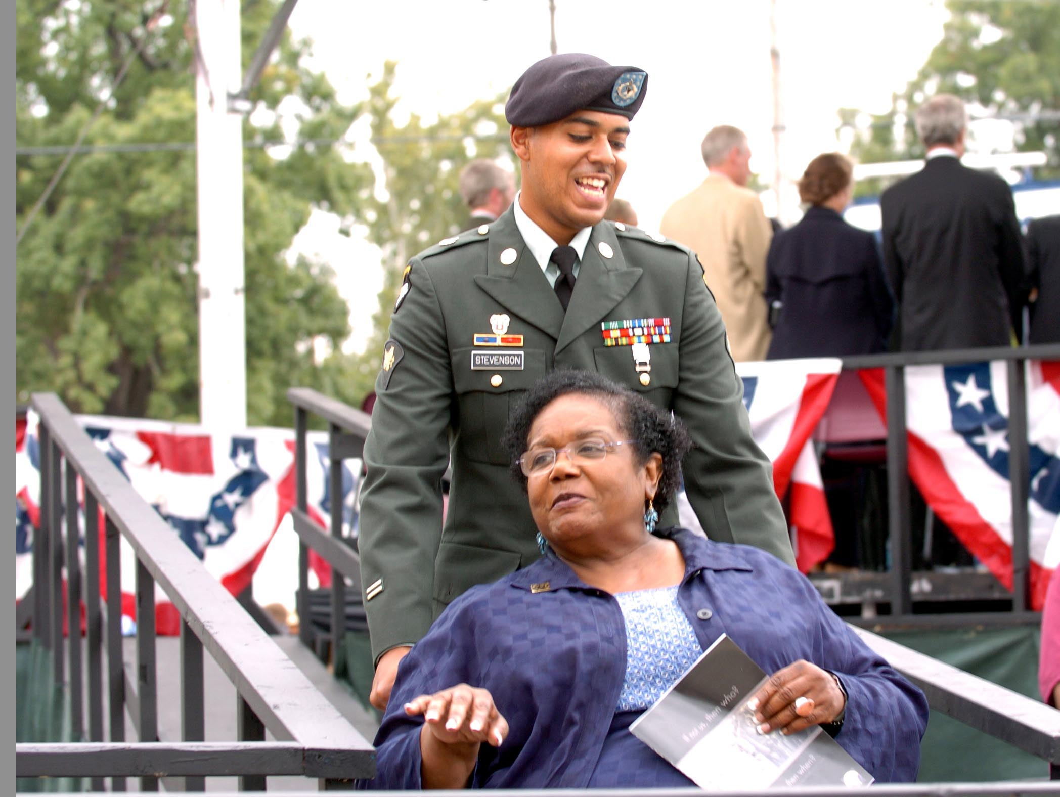 Spc. Jeffrey Stevenson, from the 101st Airborne Division (Air Assault) escorts Little Rock Nine member Melba Pattillo Beals to the newly dedicated Little Rock Central High School National Historic Site Visitor Center after the dedciation ceremony Sept. 24, 2007. Photo by Sgt. 1st Class N. Maxfield Operation Arkansas